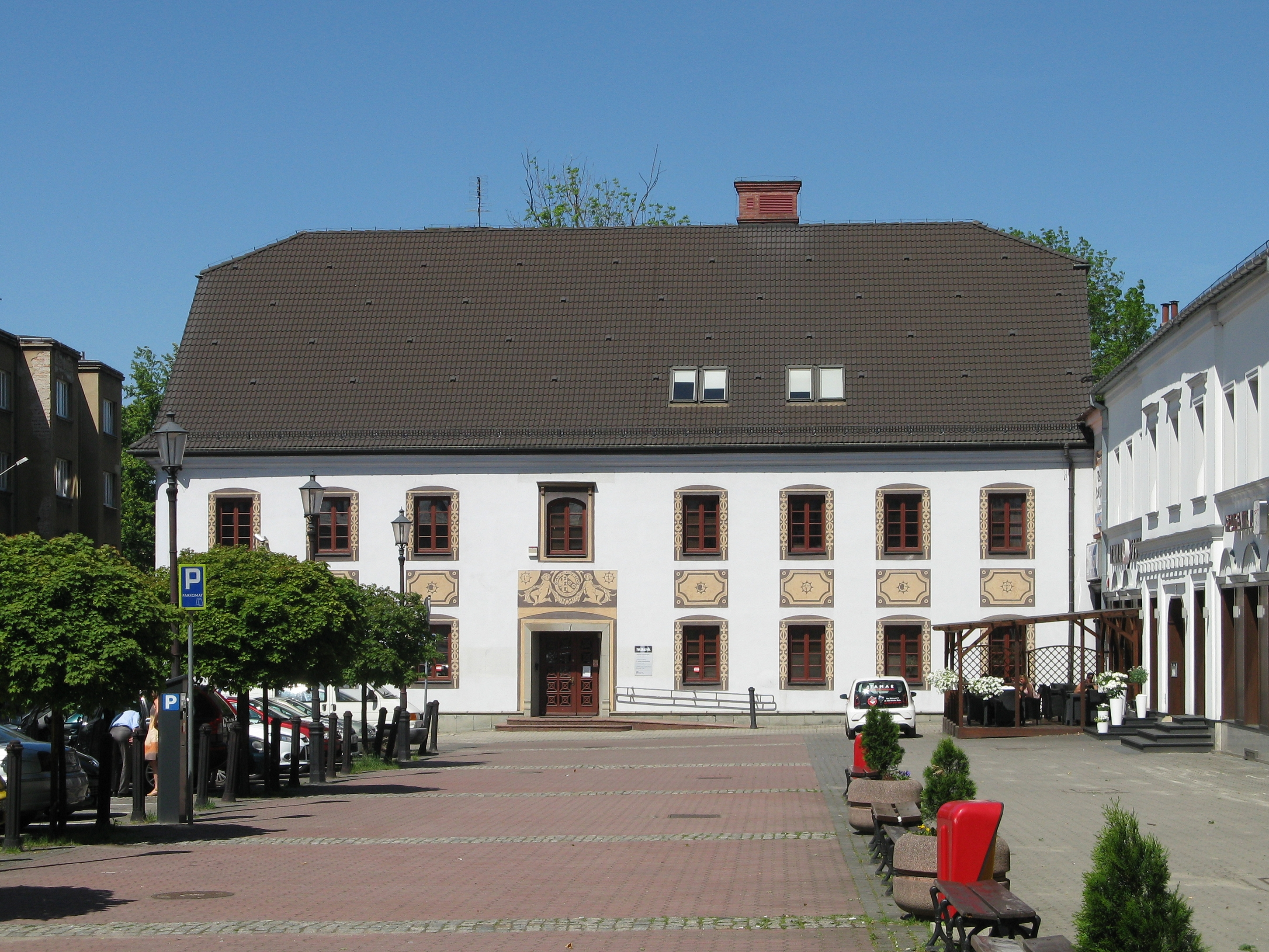 The historic tenement house, Wolności square 7 in Bielsko-Biała, Poland.